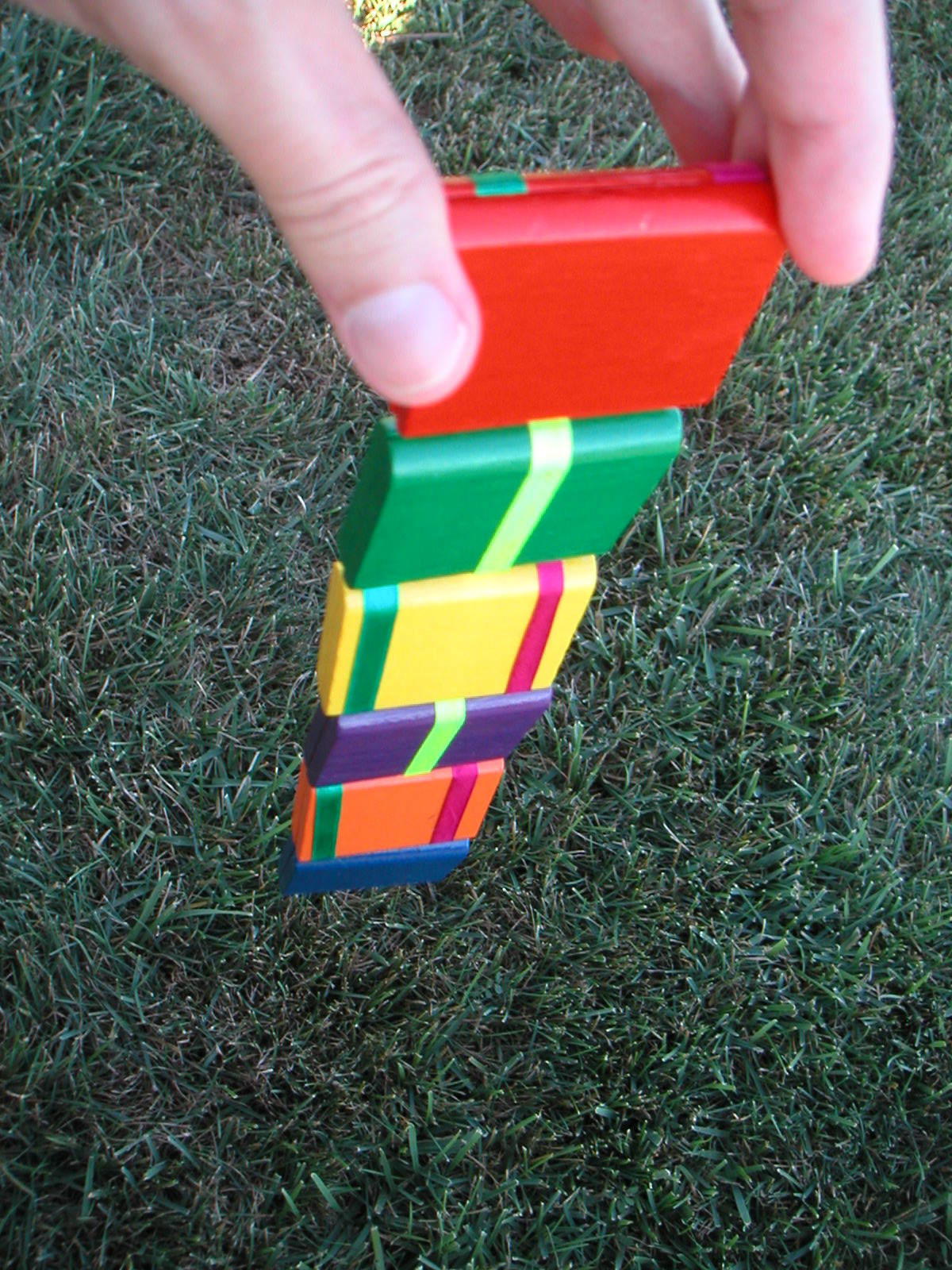 Blocks of painted wood held together by ribbon: a Jacob's Ladder.